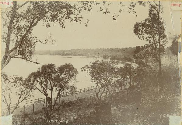 Crawley Bay in the Swan River in the 1890s. The estate bordering the bay had been first owned by Captain Currie and then by Henry Sutherland, but in 1910 it was acquired by the state and in 1922 it was vested in the University of Western Australia.